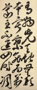 Zen text by Bankei Yotaku